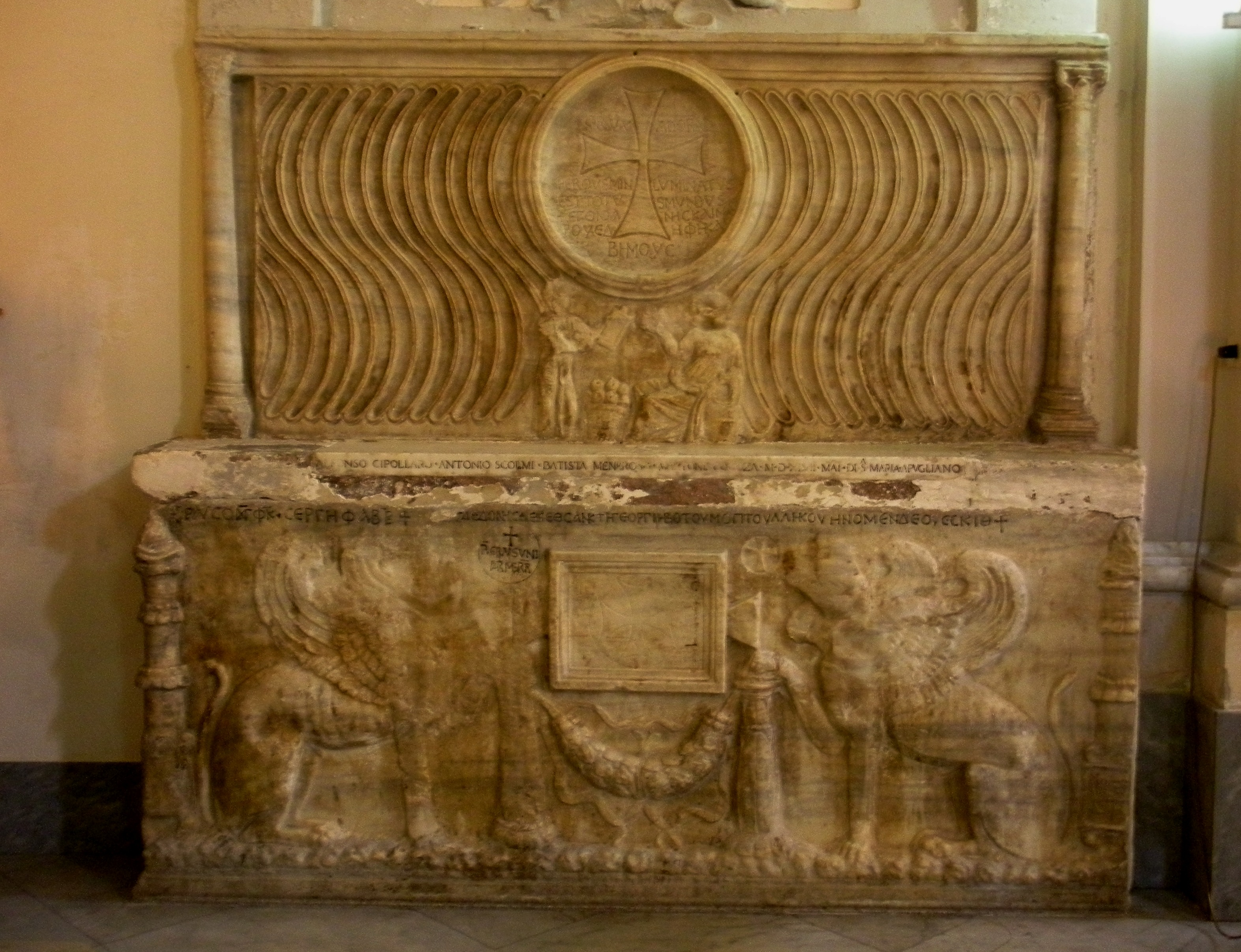 The Basilica of Santa Maria a Pugliano, Ercolano: the two sarcophagi of II (bottom) and IV (up) century a.C.